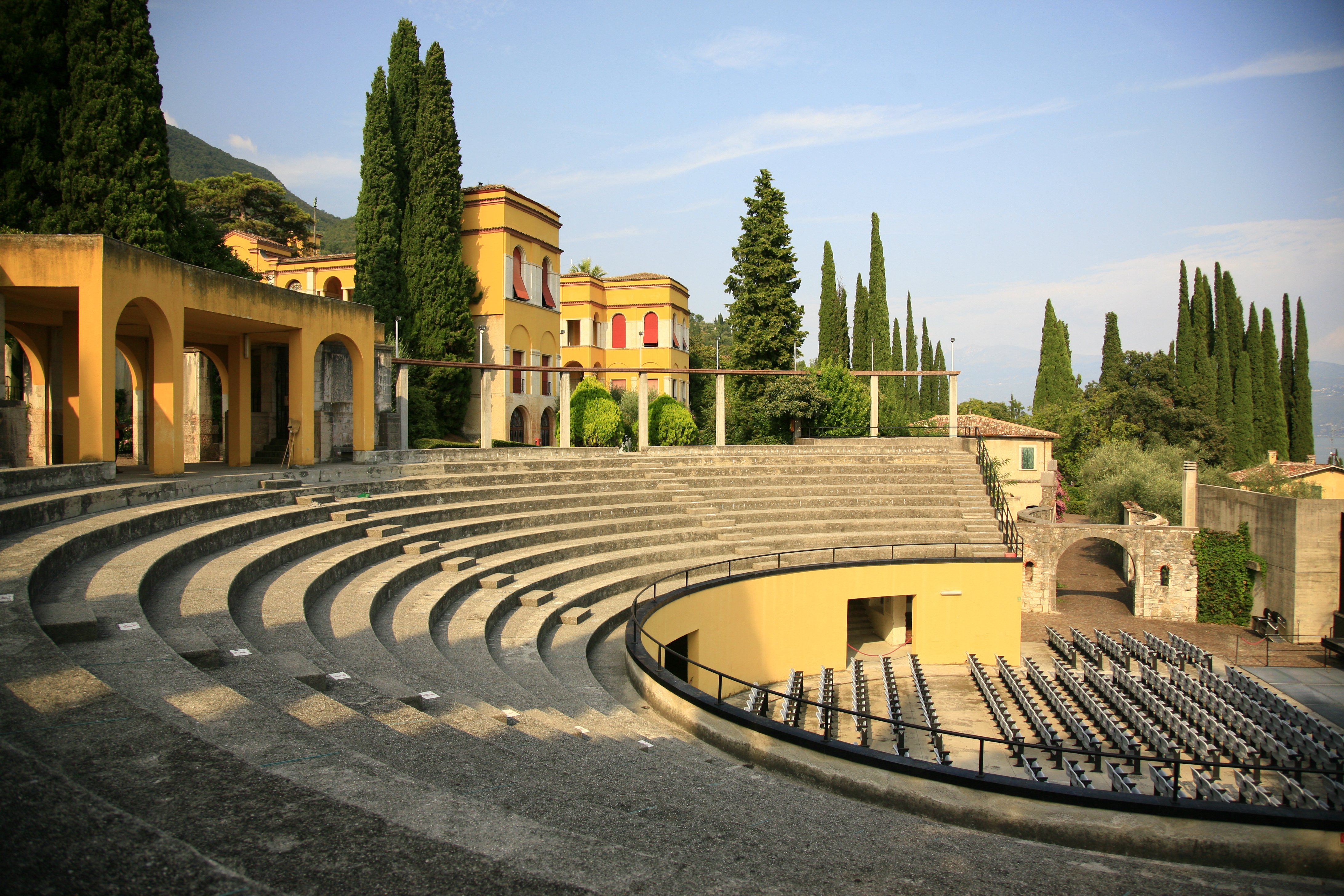 The Amphitheatre in the garden of Vittoriale degli italiani, located in Gardone Riviera at Lake Garda (Italy)